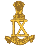 Jat regiment